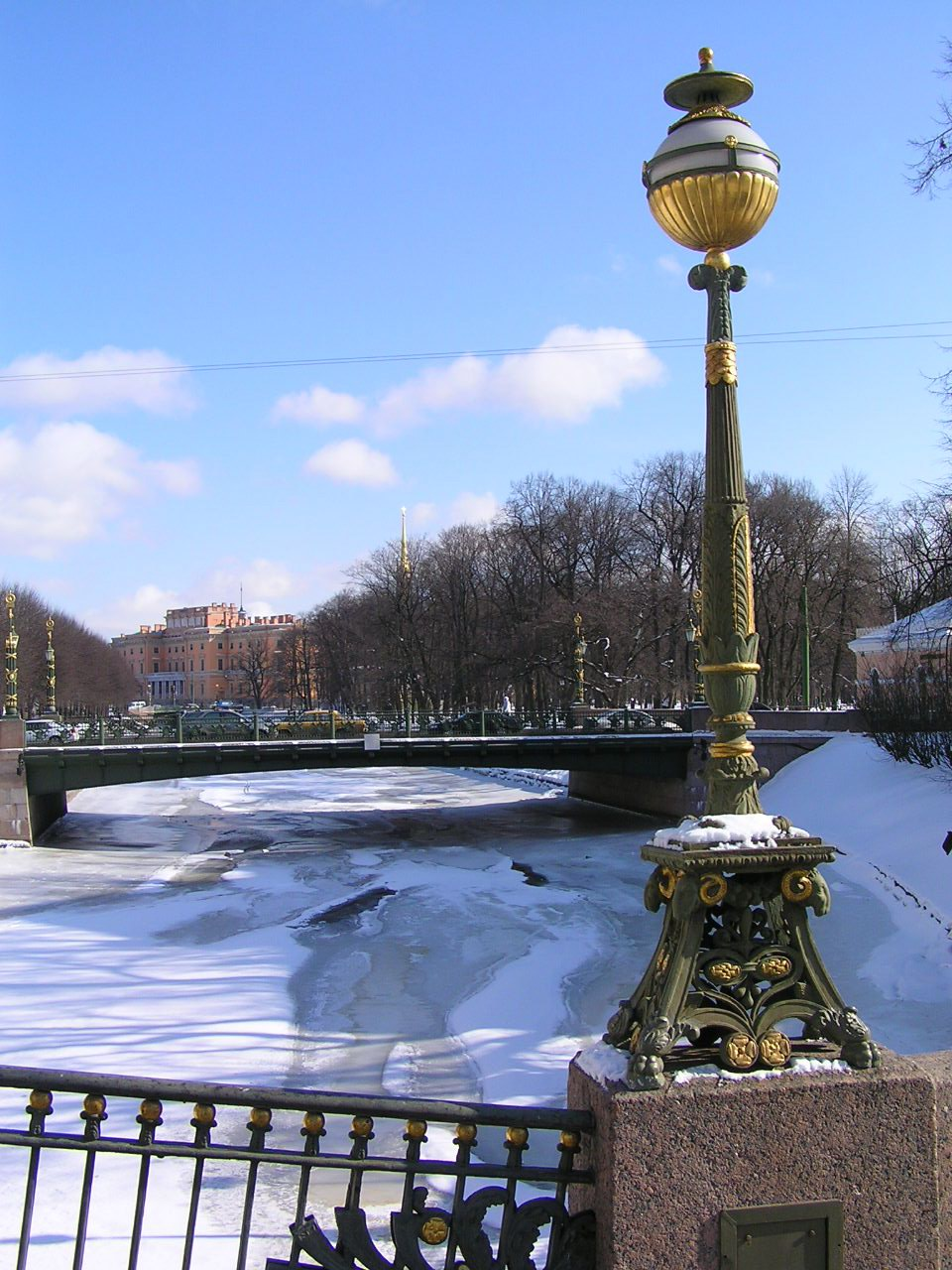 Saint Petersburg,Russia-Magic winter impressions at the Moika bank